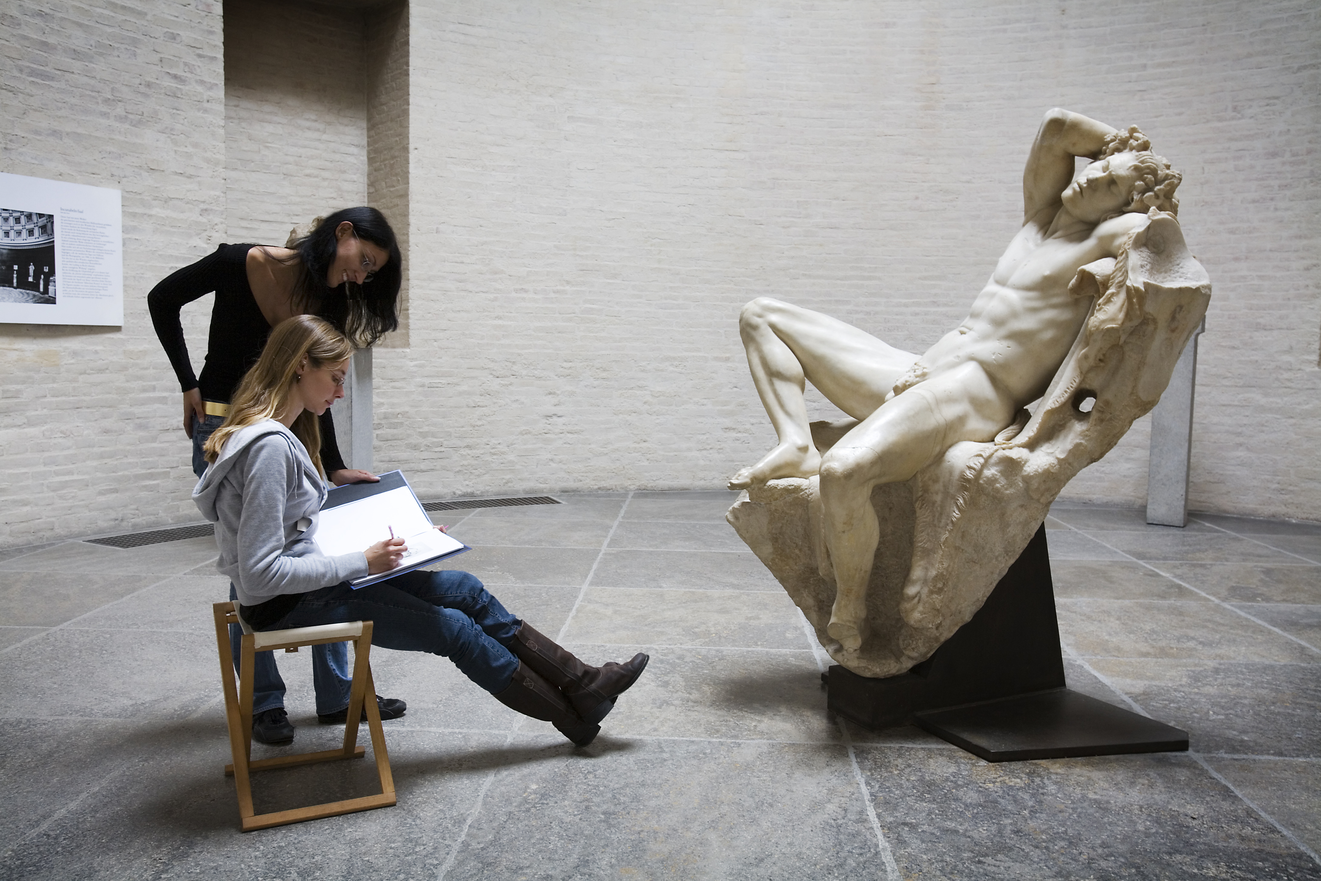 Two young women practising drawing in front of the Barberini Fawn. Glyptothek Sculpture museum. Königsplatz Munich, Germany